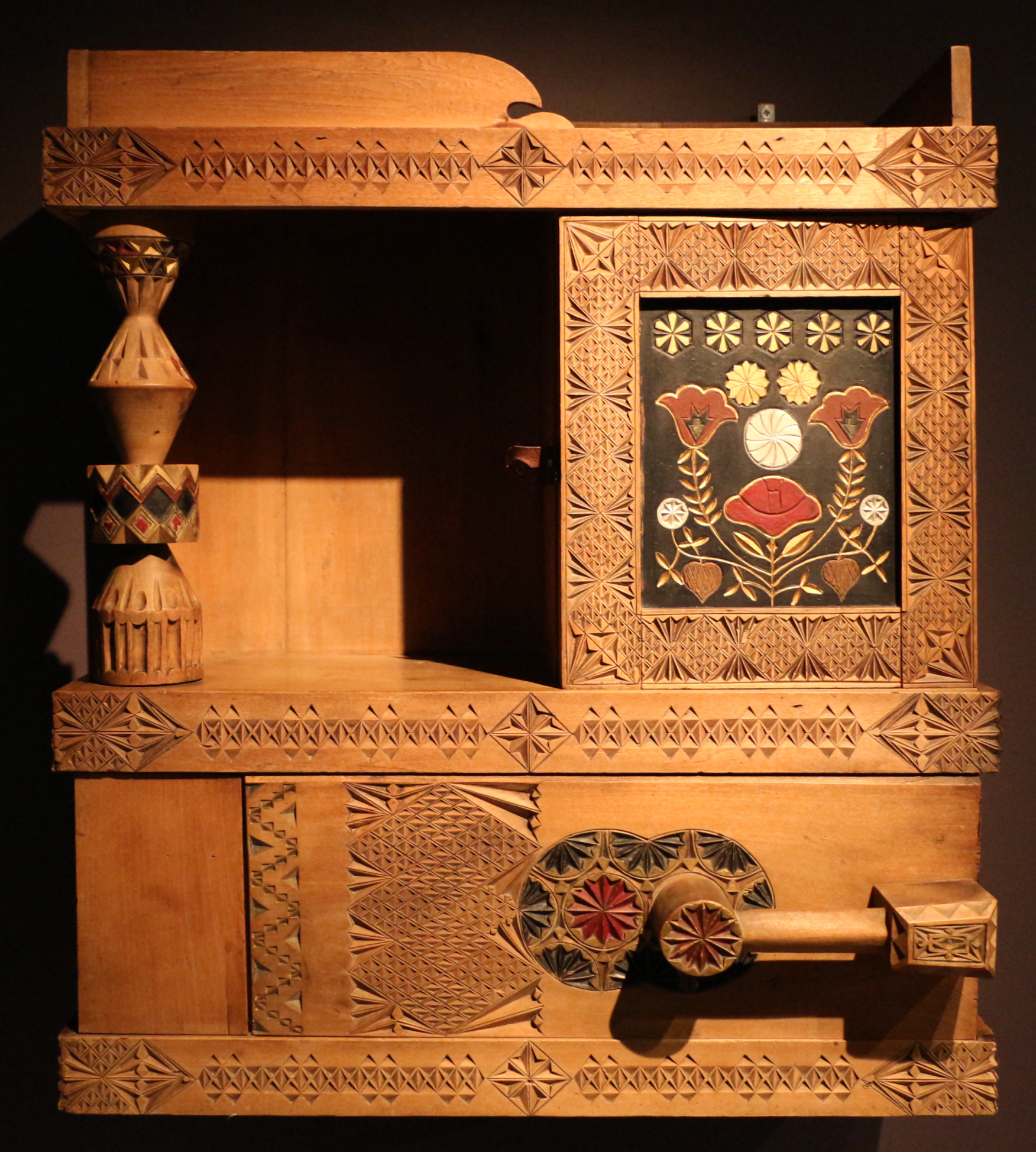 Decorative arts in the Musée d'Orsay